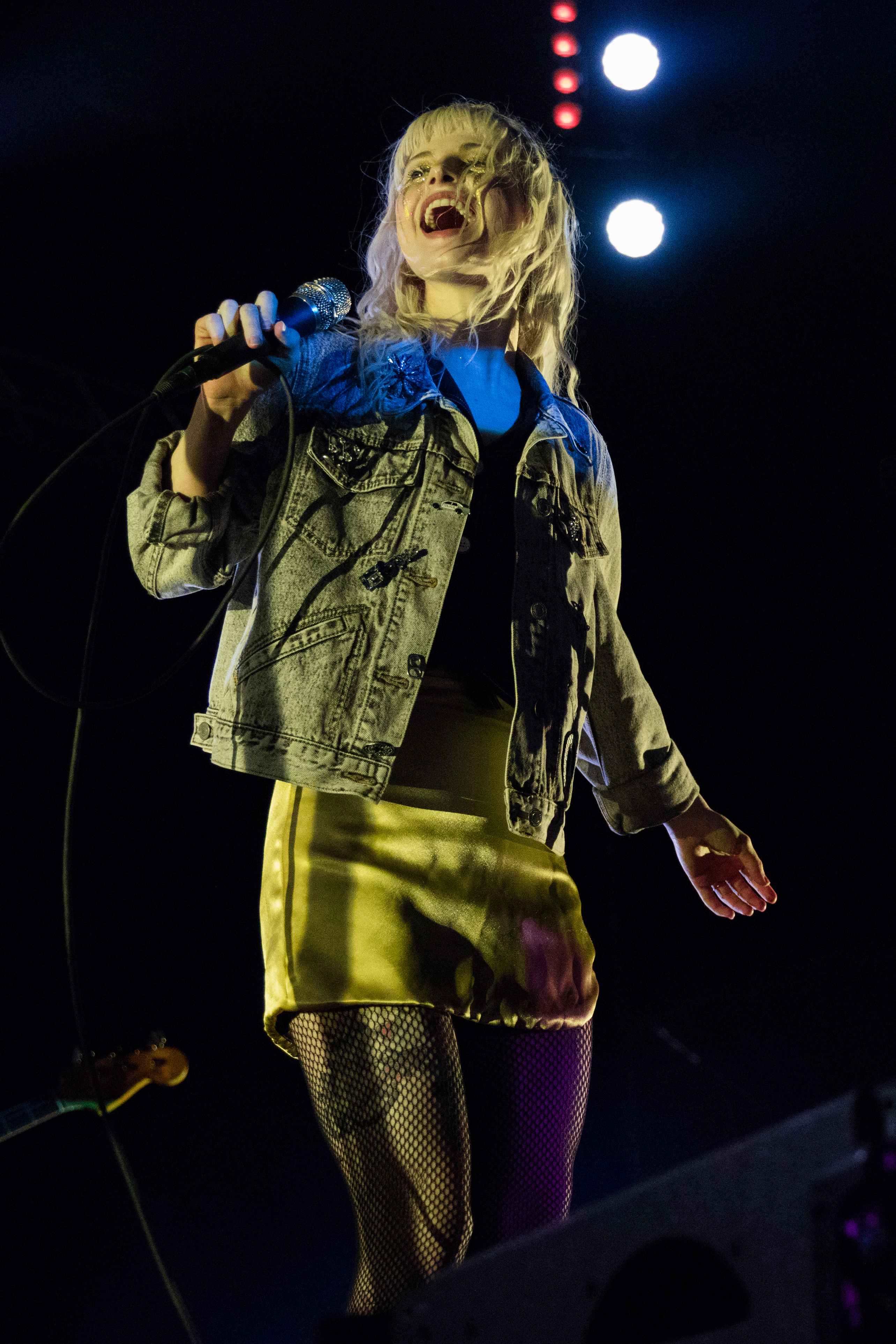 Hayley Williams performing during the After Laughter tour in Monterrey, Mexico